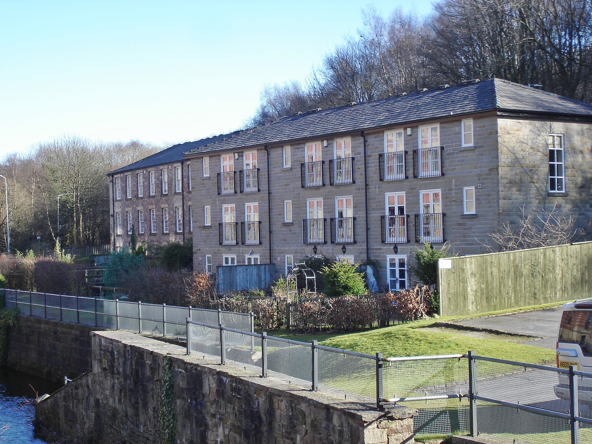 Bridge Mill, Eagley, Bolton at left. Now converted to apartments.